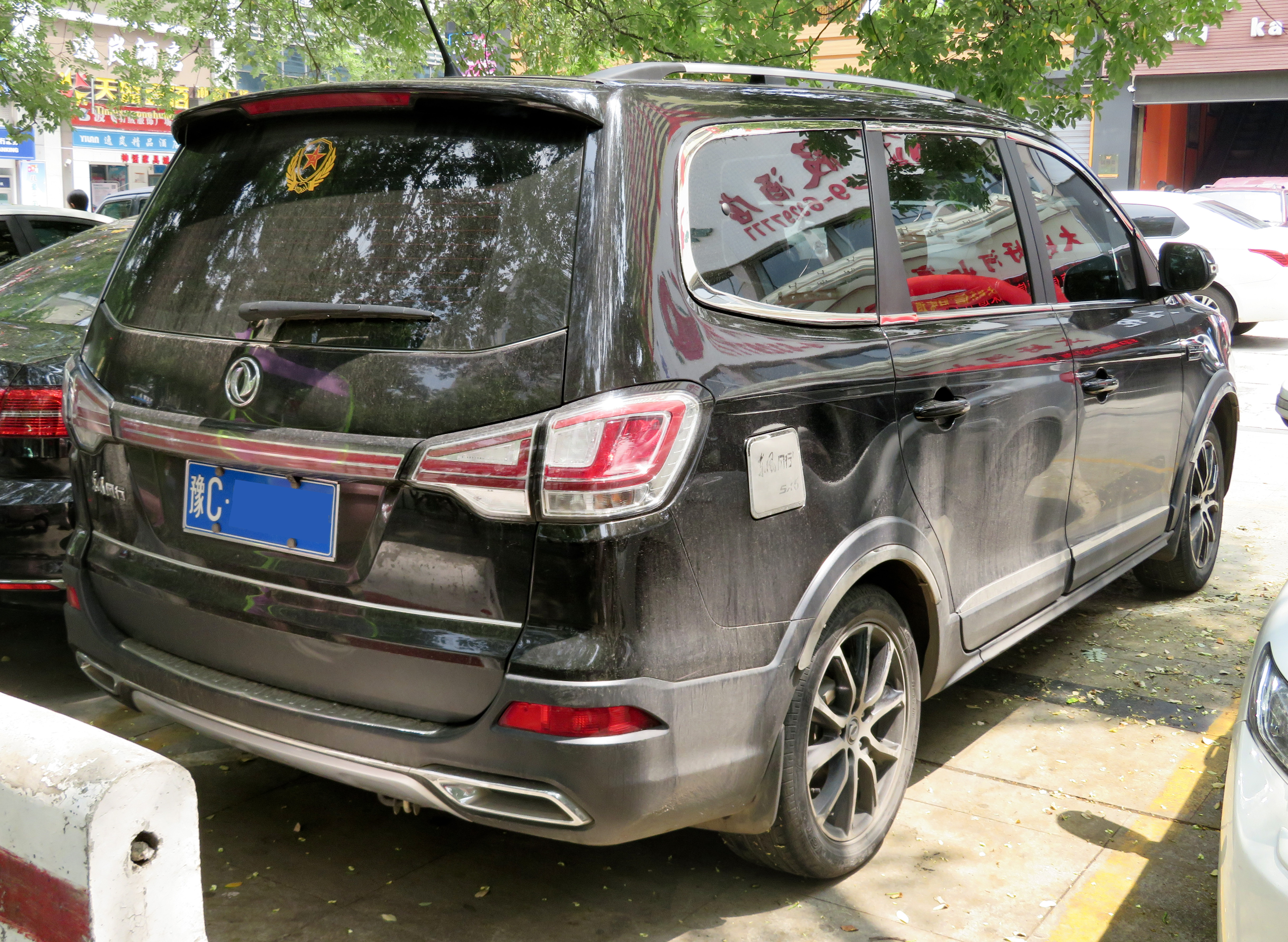 A 2017 Dongfeng-Fengxing SX6 photographed in Xigong District, Luoyang, Henan province, China